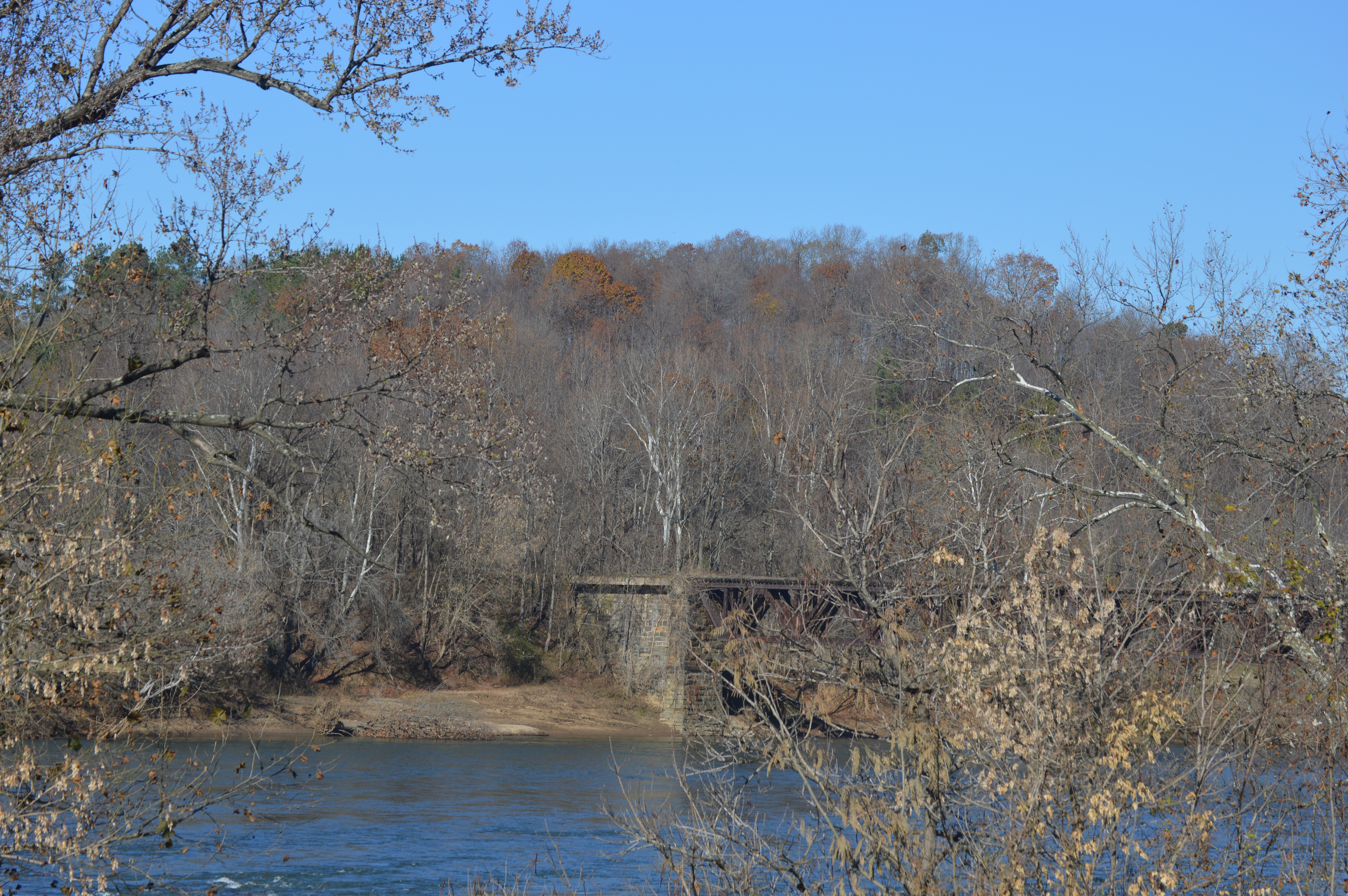 Distant view from the southeast of the site of Fort Riverview, which sits on a hilltop above the James River in Amherst County, Virginia, United States. The photo is taken from the Mount Athos Road bridge over Little Beaver Creek in Campbell County. Note the Six Mile Bridge below the hilltop. The fort is listed on the National Register of Historic Places.